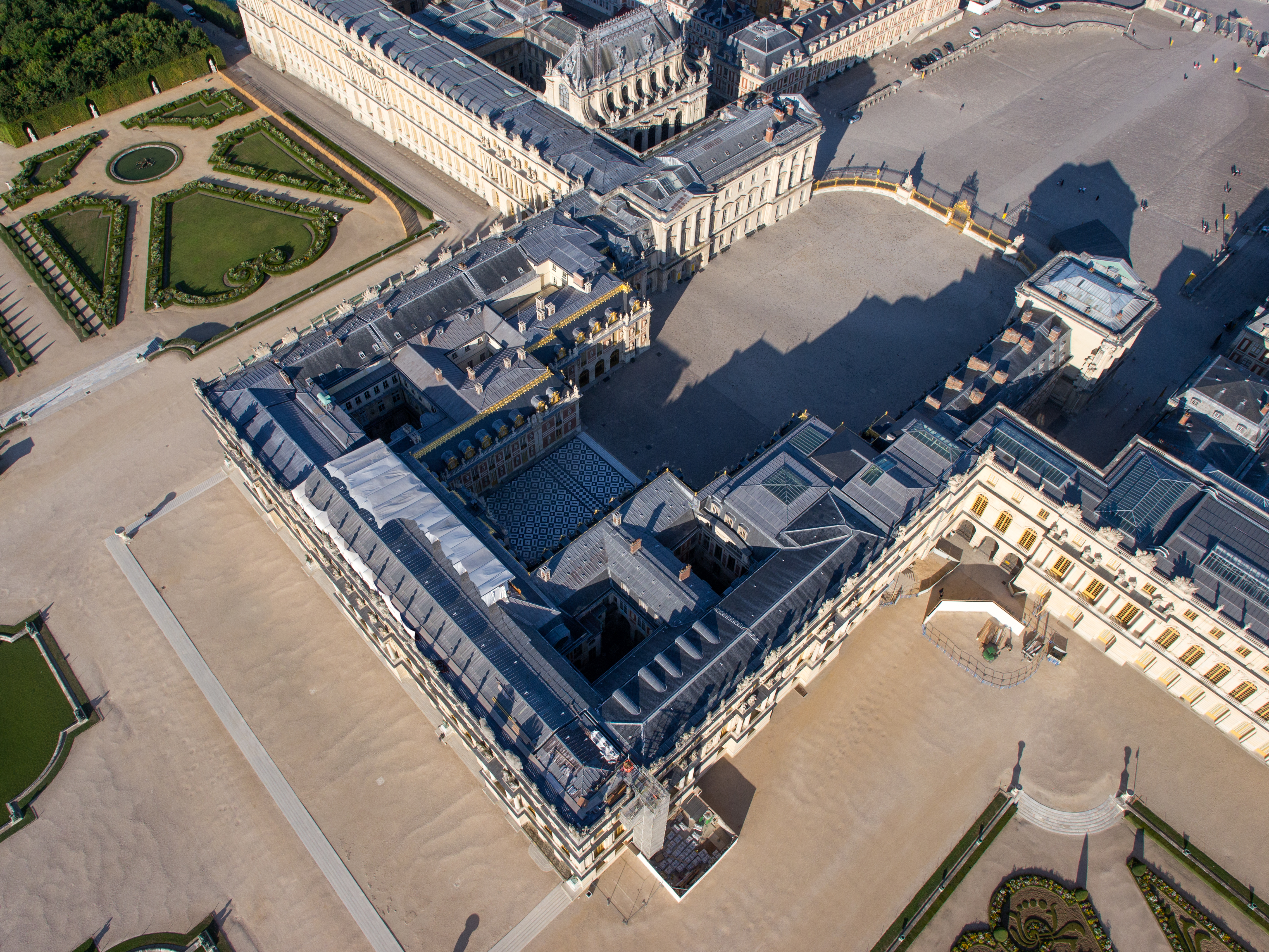 Aerial view of the central part of the Palace of Versailles, France